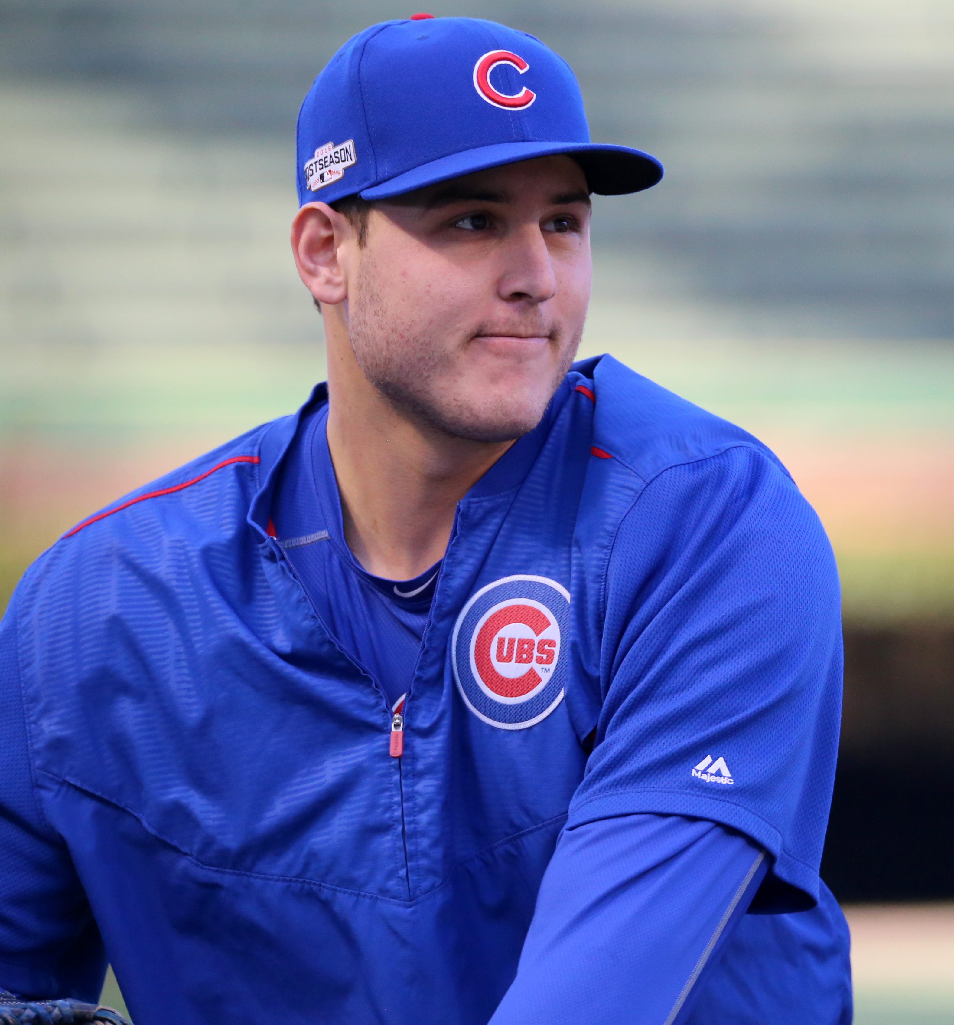 Cubs first baseman Anthony Rizzo looks on during batting practice before NLCS Game 6.